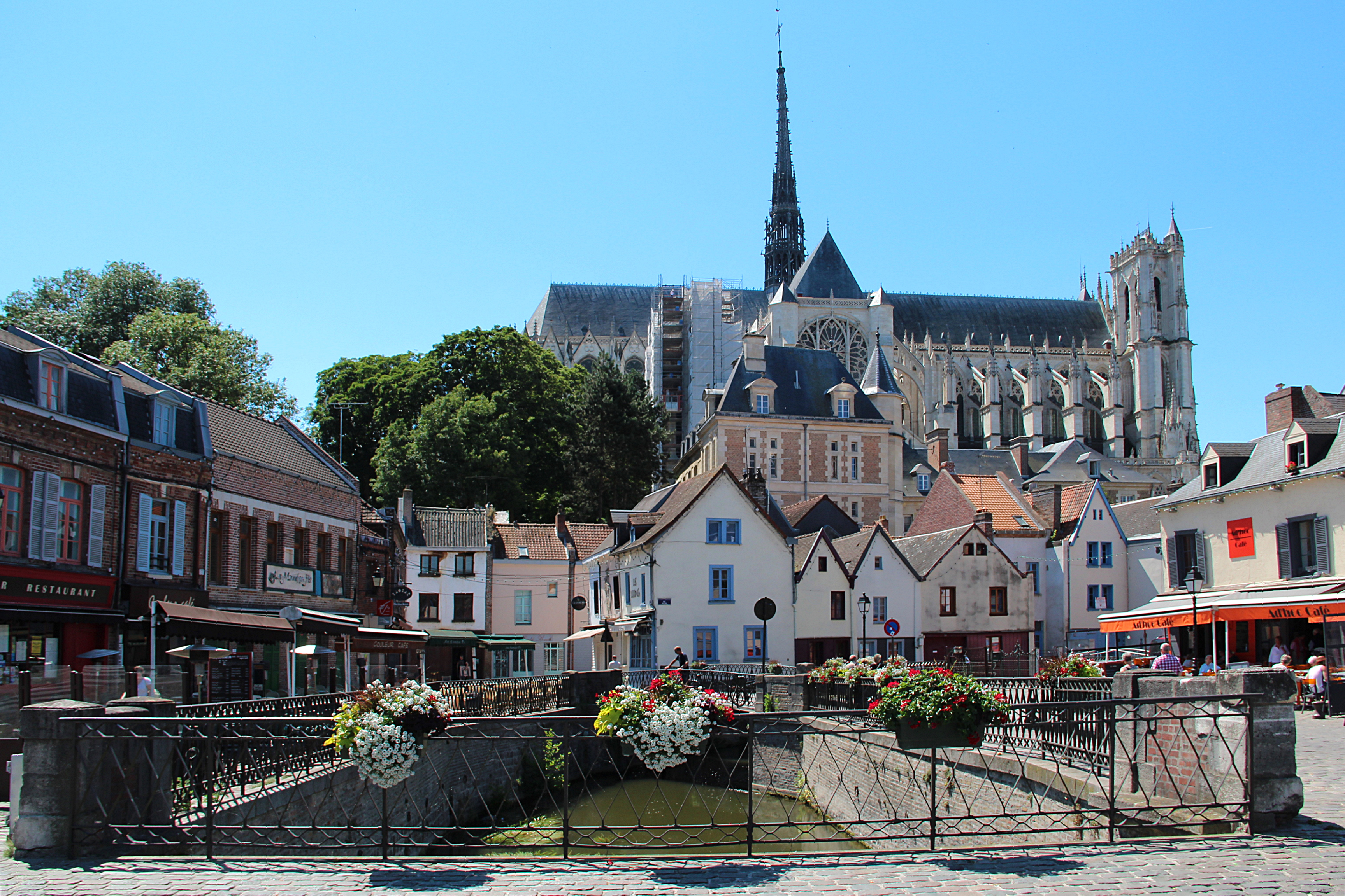 Amiens (Somme - France), the Cathedral of Our Lady of Amiens seen from the Place du Don.